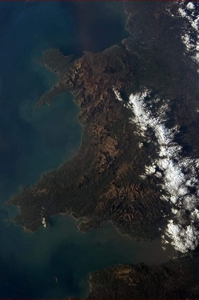 Wales pictured from the International Space Station